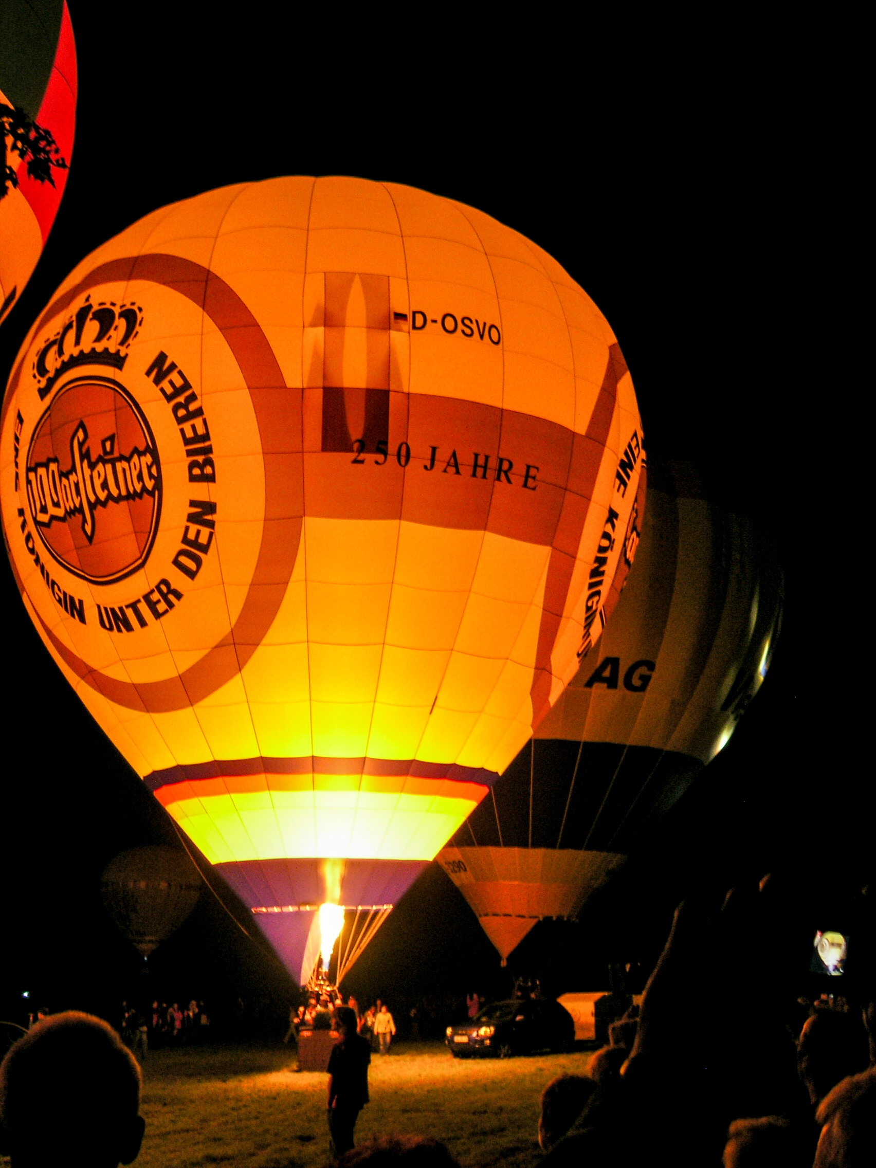 Balloon glow at Montgolfiade 2007 on Aa lake in Münster, North Rhine-Westphalia, Germany